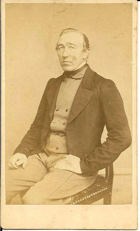 Swedish politician from late nineteenth century